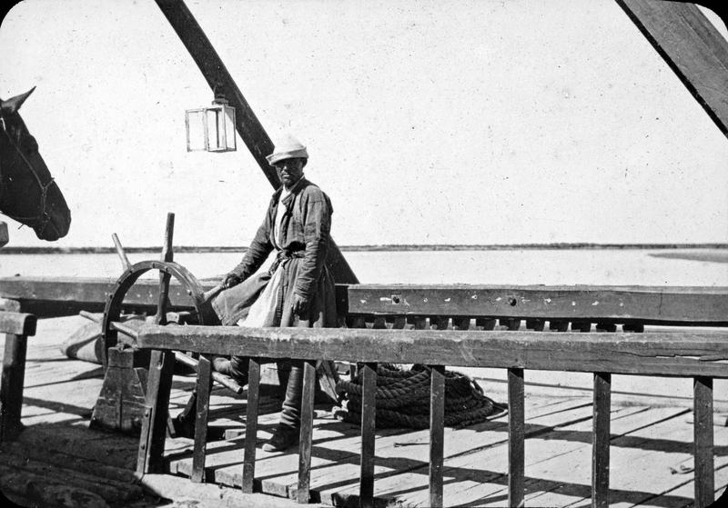 Паромщик